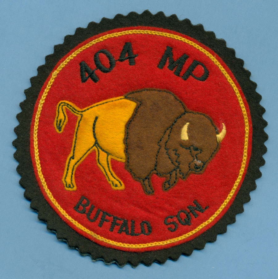 RCAF 404 Buffalo Squadron, MP(Maritime Patrol). Manufactured by Crest Craft and retains yellow remnant of the label on the reverse. Estimated date from 1956 to early 60's.